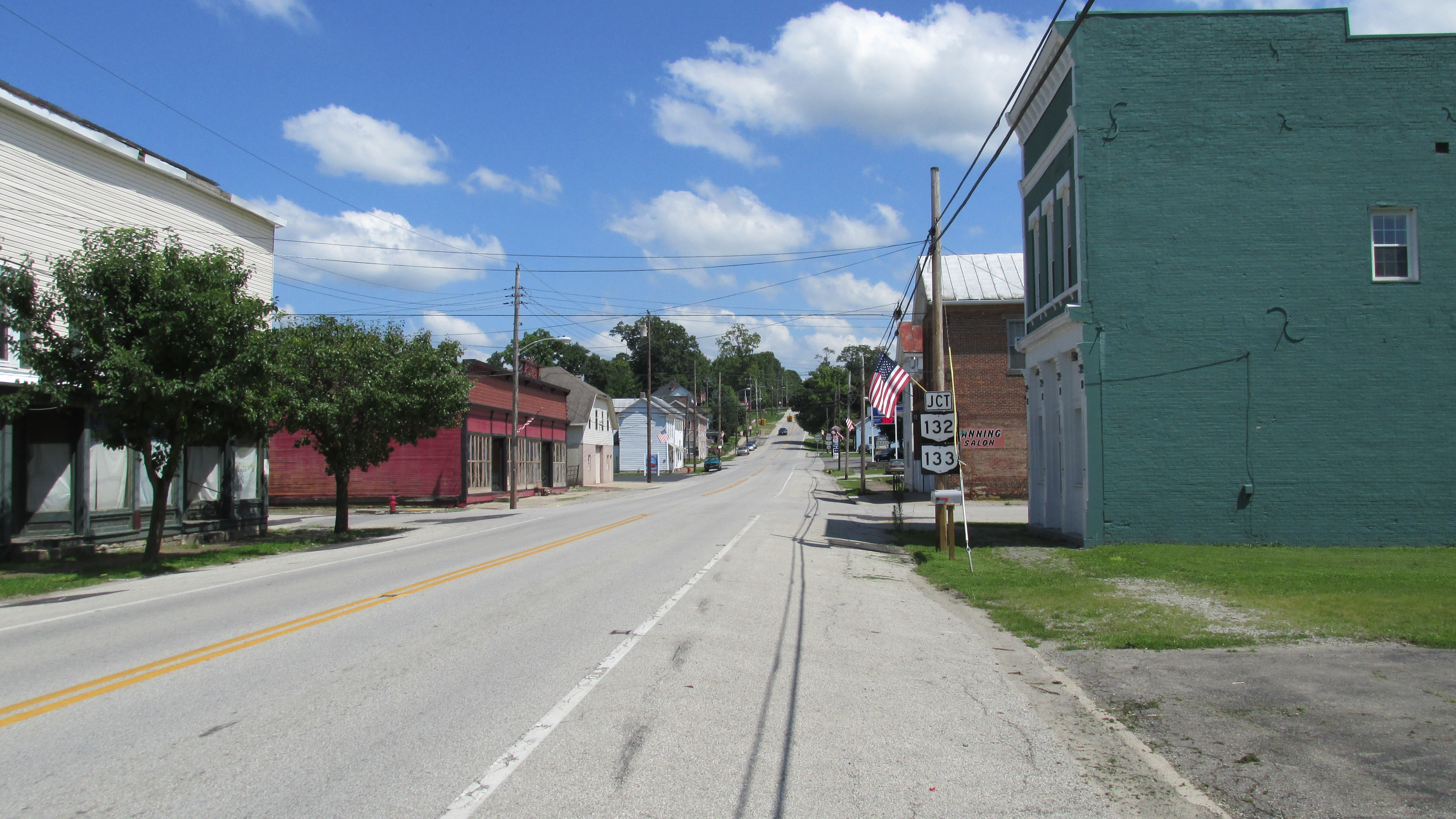 Central business district in Clarksville.